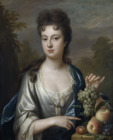 Florence Wrey (d.1718), daughter of Sir Bourchier Wrey, 4th Baronet (c. 1653-1696) of Tawstock, Devon, by his wife Florence Rolle, daughter of Sir John Rolle (1626-1706) of Stevenstone, Devon. She was the wife of John Cole of Enniskillen, Ireland, builder of Florence Court, son of Sir Michael Cole and Elizabeth Cole. Her son was John Cole, 1st Baron Mountflorence of Florence Court (1709-1767). Given to the National Trust by Nancy, Dowager Countess of Enniskillen (1917 – 1998) before her death, August 1997. Collection of National Trust, Florence Court, County Fermanagh, Northern Ireland. National Trust Inventory Number 631037